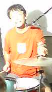 Tatsuya Yoshida playing as RUINS ALONE in Brooklyn, NY